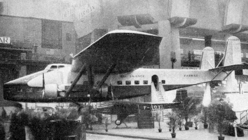 Farman 224 photo from L'Aerophile December 1936